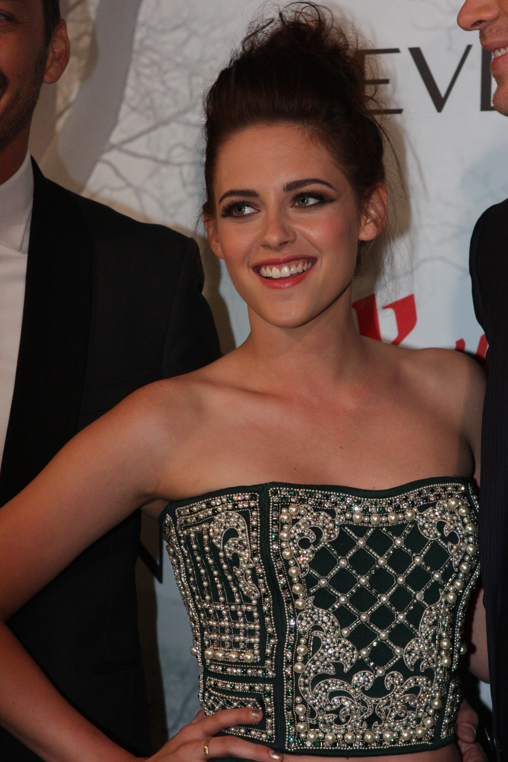 Kristen Stewart at the Snow White and the Huntsman movie premiere - Bondi Junction, Sydney Australia 2012.